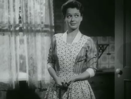 Ellen Drew in Stars in my Crown by Jacques Tourneur (1950)